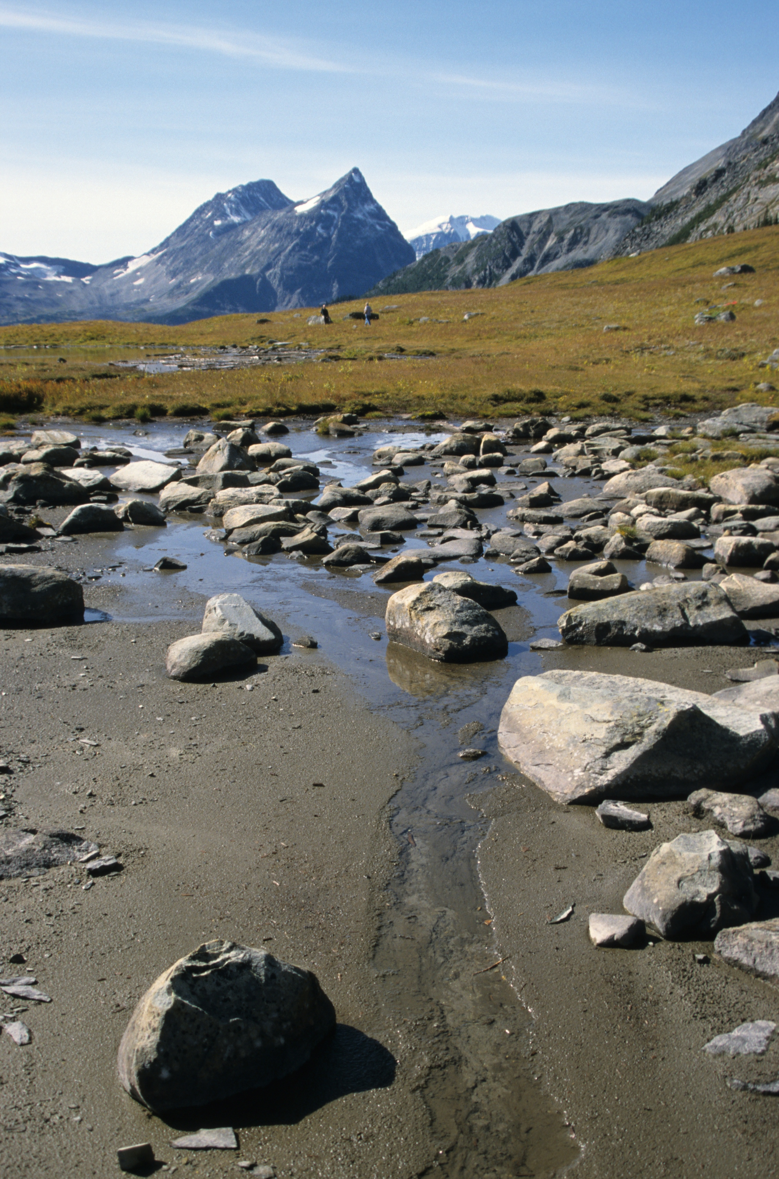 Photo by Roland Neave, contributor to Fraser Pass article.